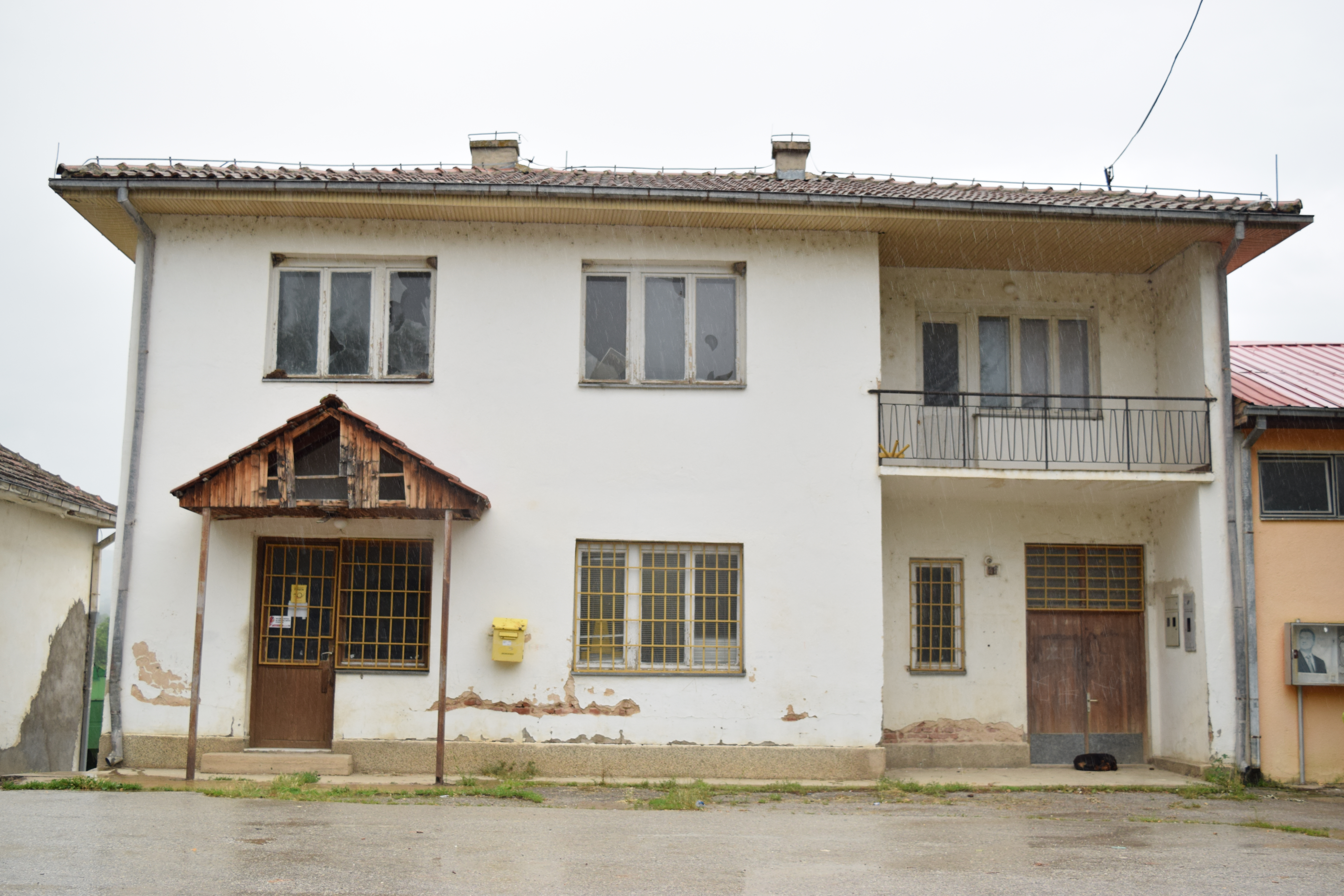 Postoffice in the village Izvor